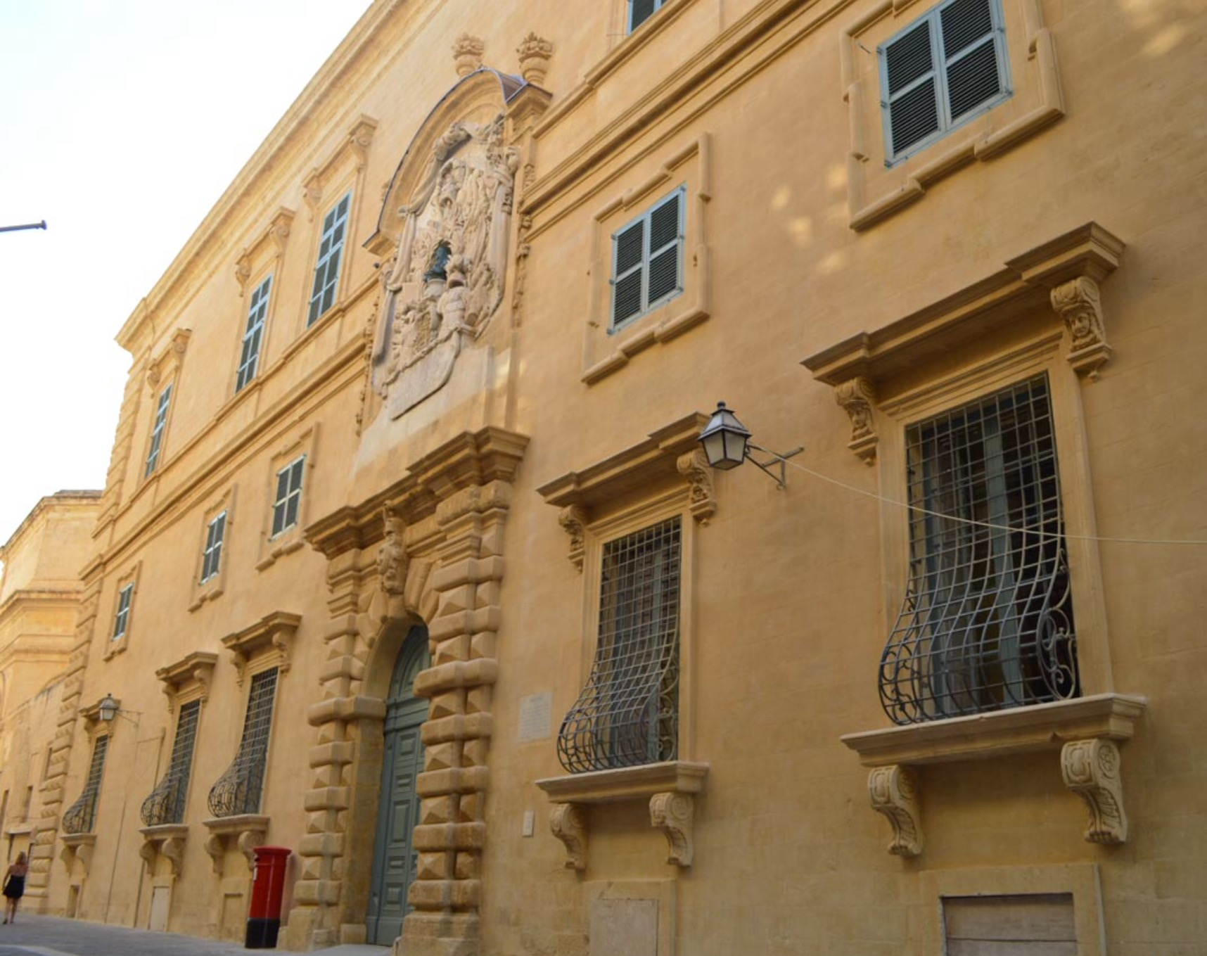 Auberge d'Italie